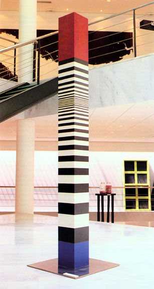 Zouni, Red column, image from the Macedonian Museum of Contemporary Art, Thessaloniki, Central Macedonia, Greece